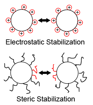 Diagram of the electrostatic and steric contributions to colloid stability.